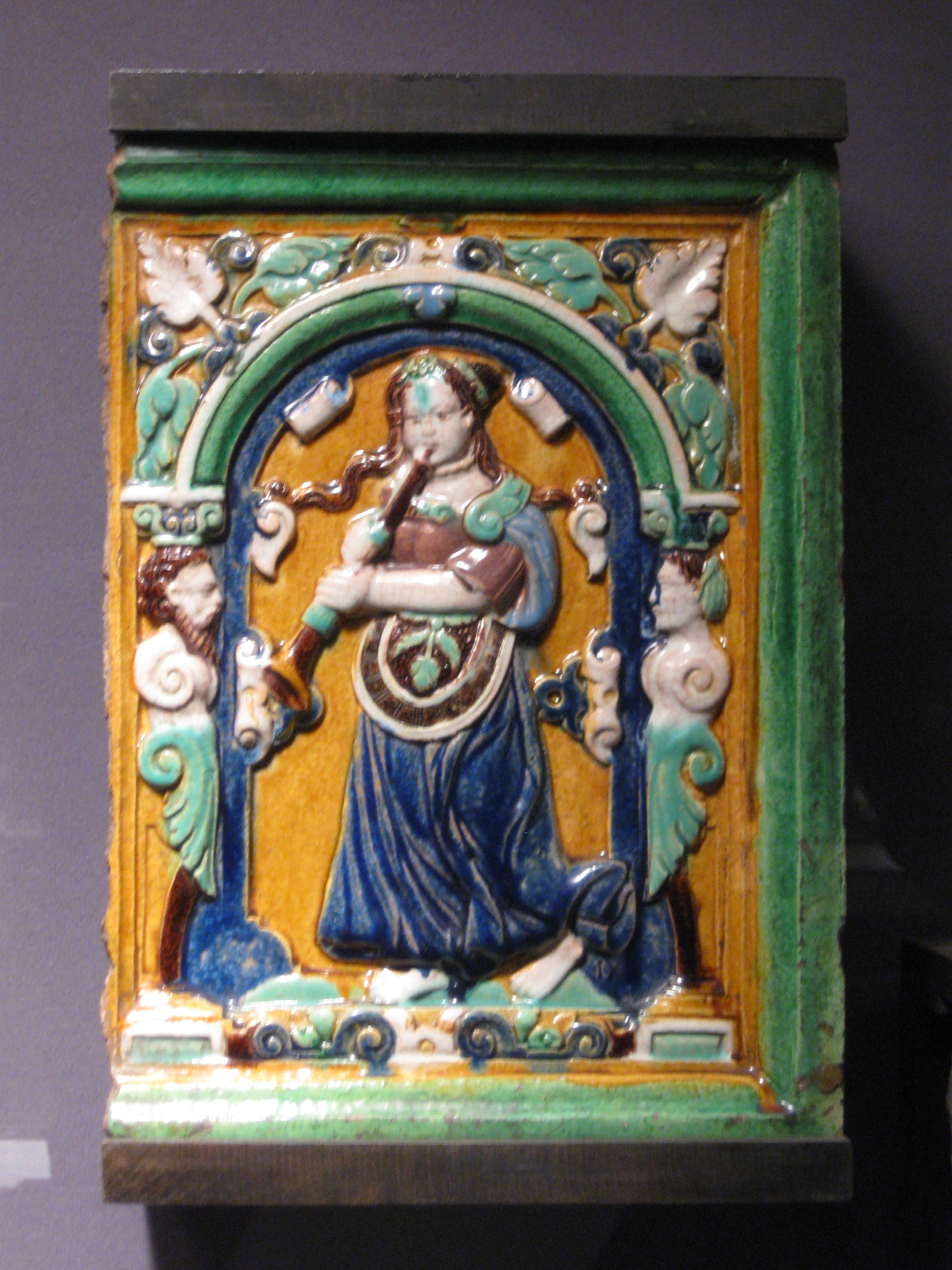 This is a c.1600 stove tile from Switzerland. It is today located within the Koerner European Art Gallery section of the UBC Museum of Anthropology in Vancouver, Canada. Its museum catalogue number is Cg114.